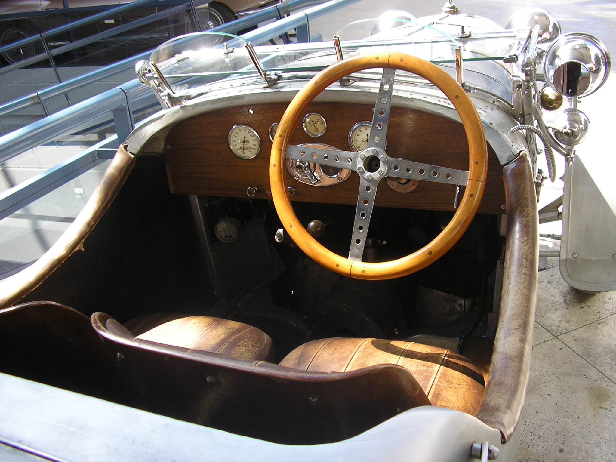 An 1924 Amilcar type C GS. The car in the picture was raced in the 1934 Monte Carlo "star race" by racer and yachtsman Eugen Kansky. In 1924 Eugen Kansky worked for Amilcar, but after the war he truend to yachting and became a USSR champion 16 times. The car was found in 1974, then quite rebuilt, but has since then been restored. It is powered by a 1074 cc four cylinder engine giving 30 hp and a top speed of 120 km/h.